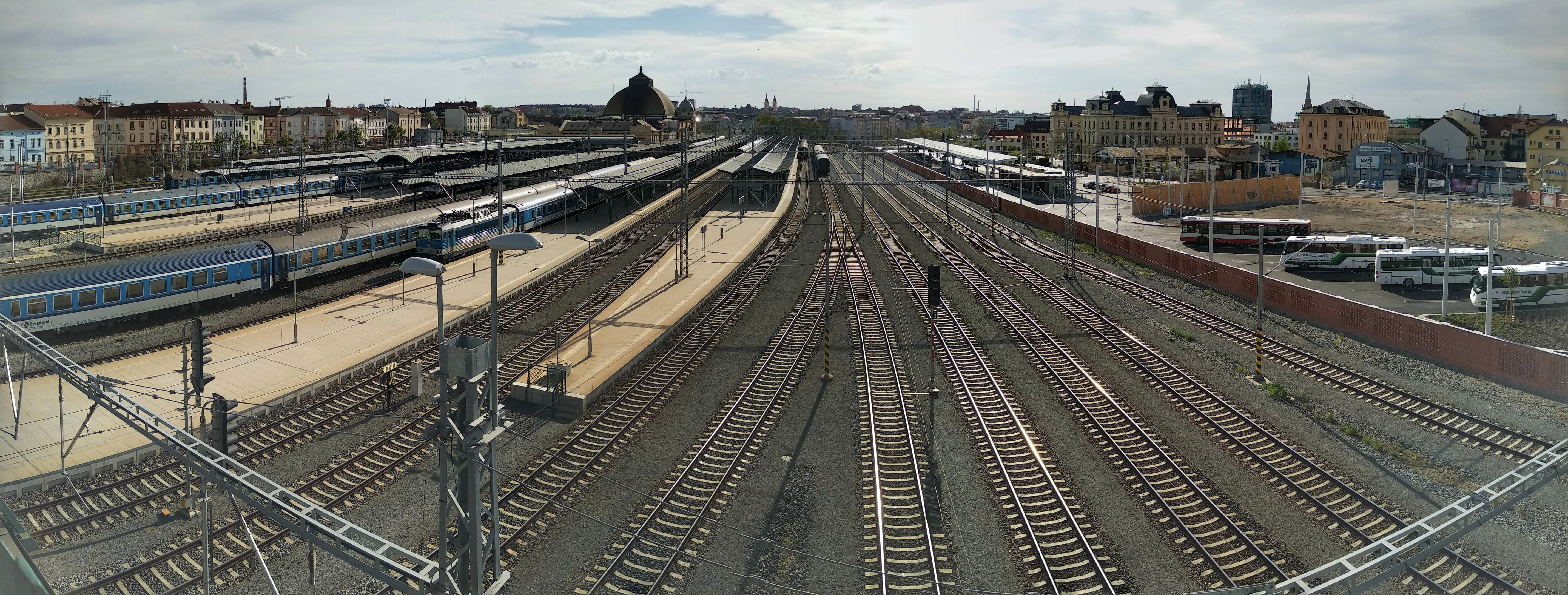 Pilsen main railway station